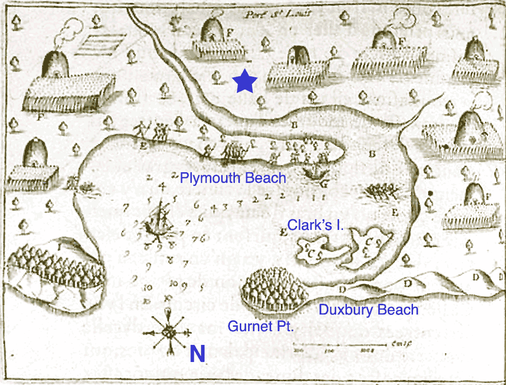 Port St. Louis (Plymouth, Massachusetts Harbor). Original map drawn by Samuel de Champlain in w:1605. Modern place names added by me; star is the approximate location of initial English settlement at Plymouth.